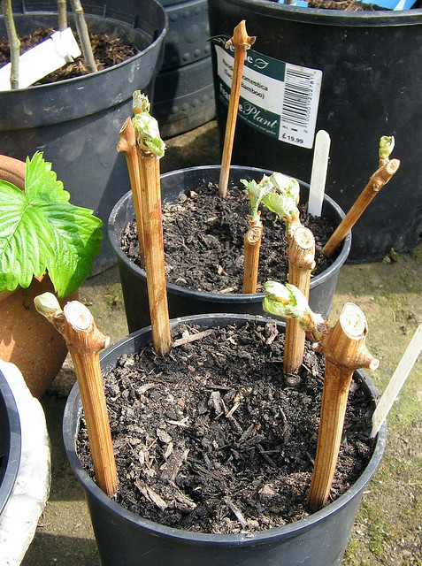 Regent and Rondo grape vine cuttings